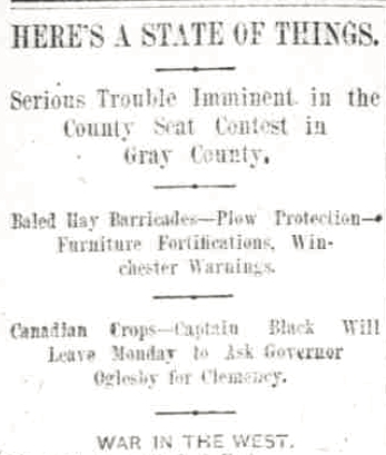 A headline for a November 1887 "Wichita Daily Eagle" article warning about violence and war in Gray County, Kansas, following the October 31, 1887, county seat election.